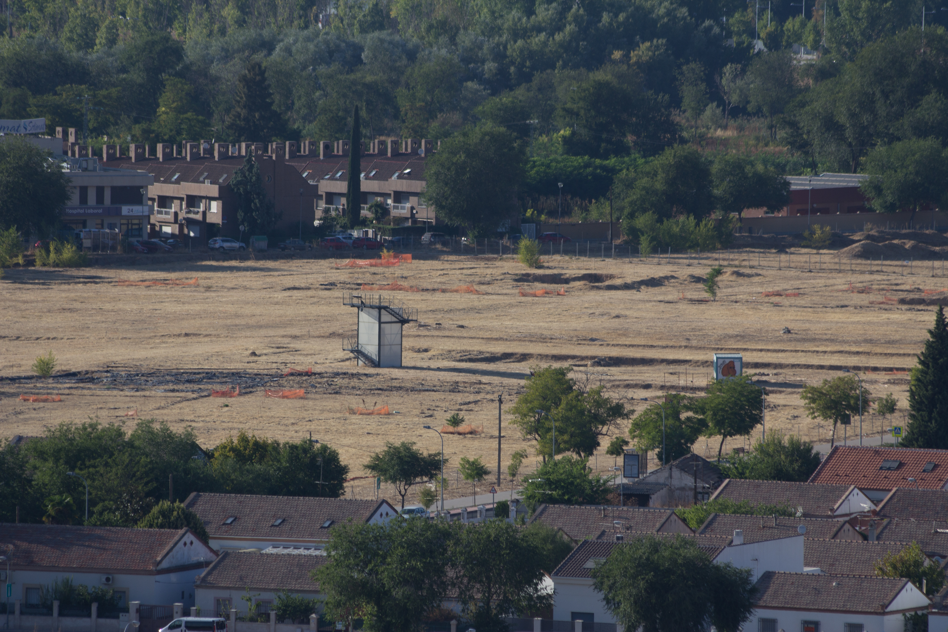 Archeological site of Vega Baja in Toledo, Spain.